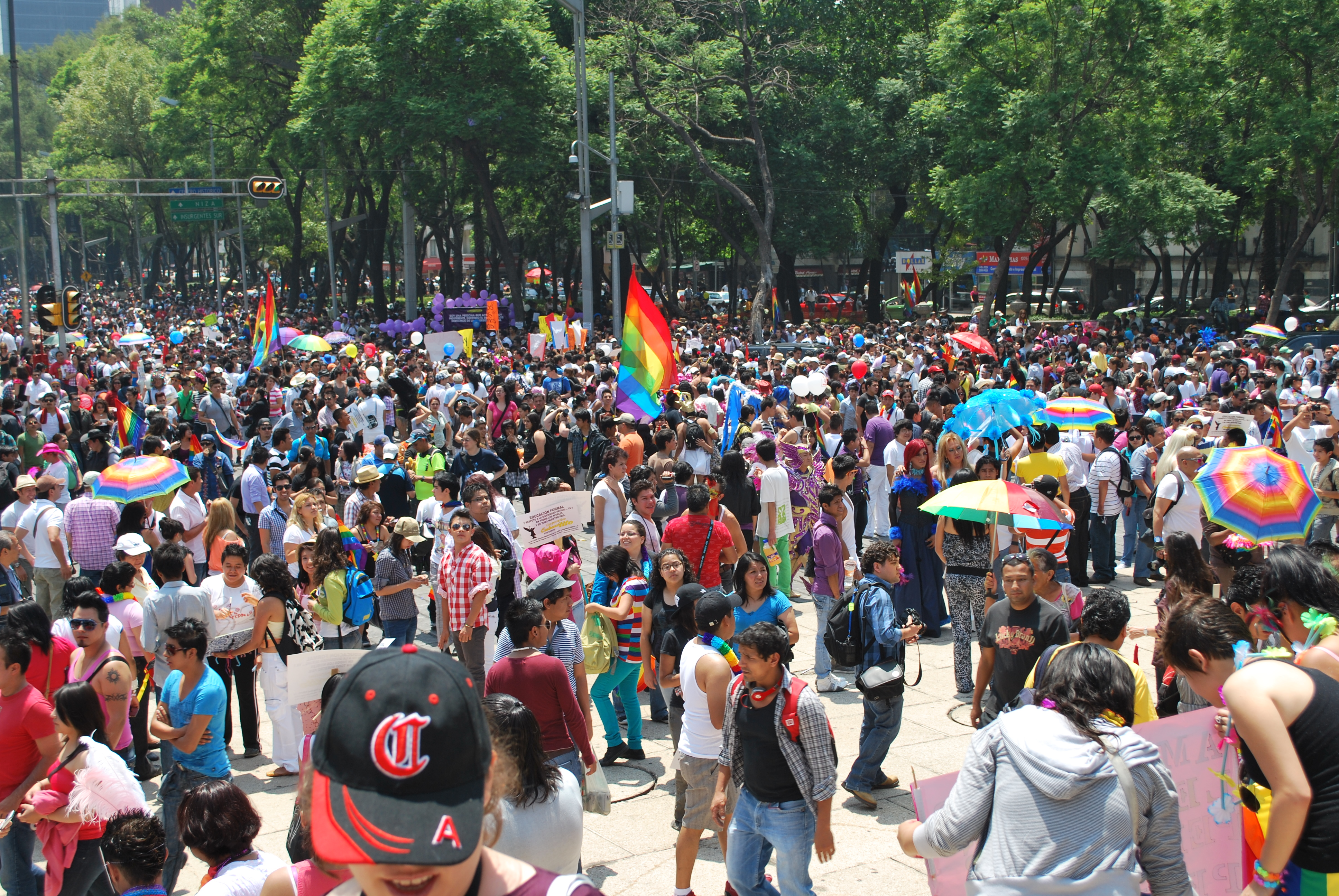 Crowd at the 2012 Marcha Gay in Mexico City